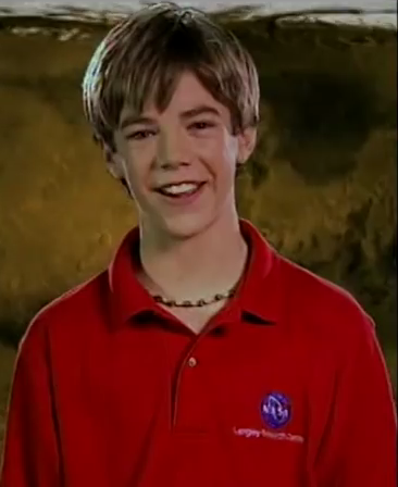 American actor Grant Gustin reporting in 2003 for NASA's Kids Science News (